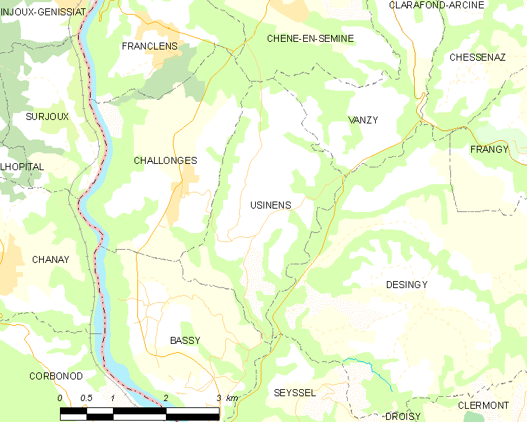 Map of French municipality Usinens